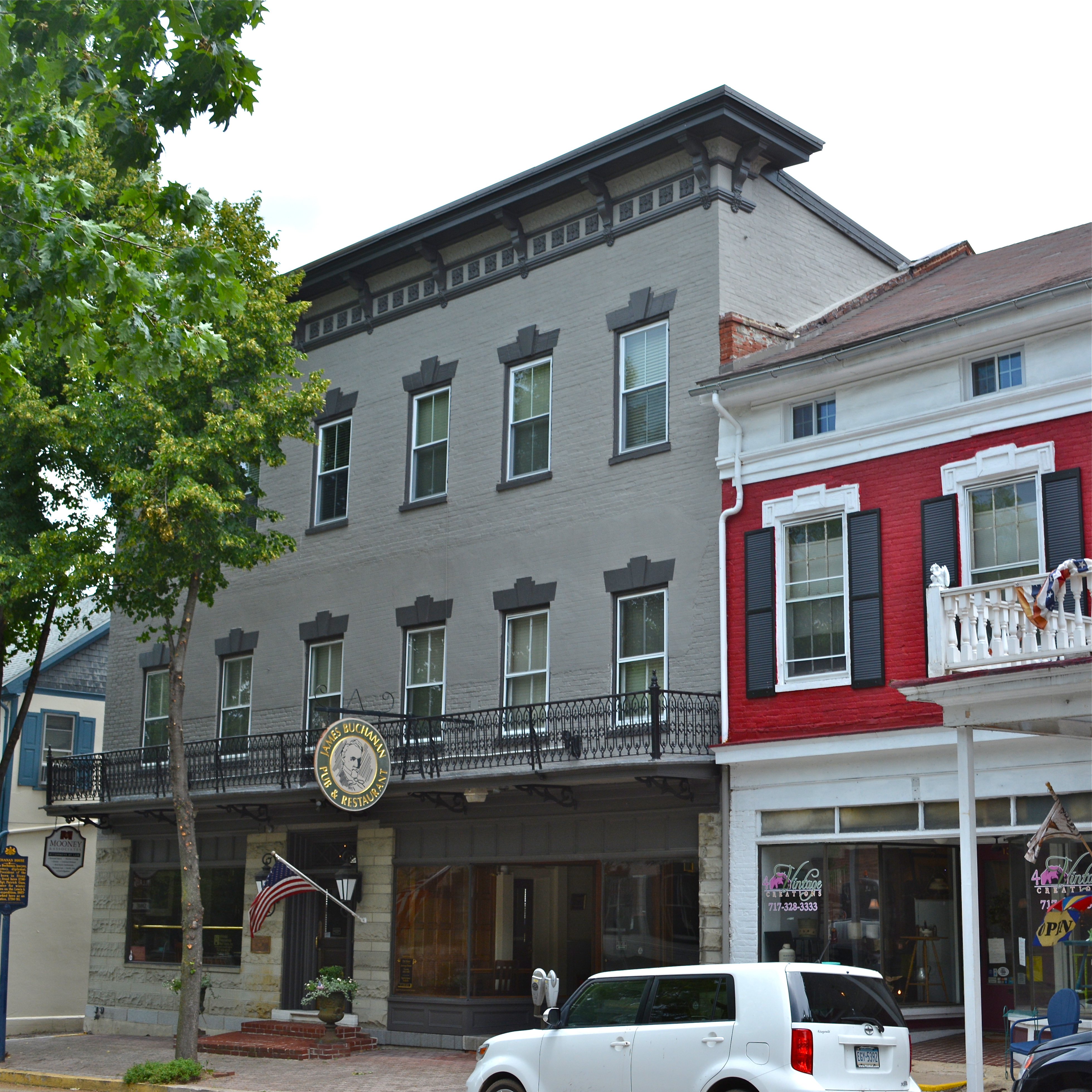 Building in Mercersburg Historic District. HD listed on the NRHP on December 13, 1978, with a boundary increase May 17, 1989. (#78002403). The district includes Main and Seminary Streets in Mercersburg, Franklin county, Pennsylvania.